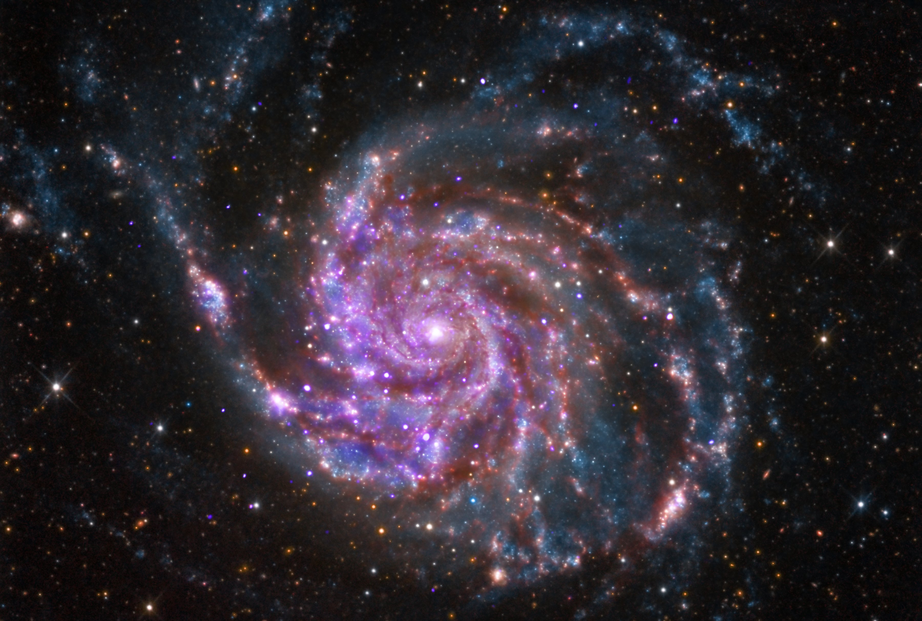 Spiral Galaxy M101 M101 is a spiral galaxy like our Milky Way, but about 70 percent bigger. It is located about 21 million light years from Earth. X-rays from Chandra reveal the hottest and most energetic areas due to exploded stars, superheated gas, and material falling toward black holes. Infrared data from Spitzer shows dusty lanes in the galaxy where stars are forming, while optical data traces the light from stars. This image is part of a "quartet of galaxies" collaboration of professional and amateur astronomers that combines optical data from amateur telescopes with data from the archives of NASA missions. NASA's Marshall Space Flight Center in Huntsville, Ala., manages the Chandra program for NASA's Science Mission Directorate in Washington. The Smithsonian Astrophysical Observatory in Cambridge, Mass., controls Chandra's science and flight operations.